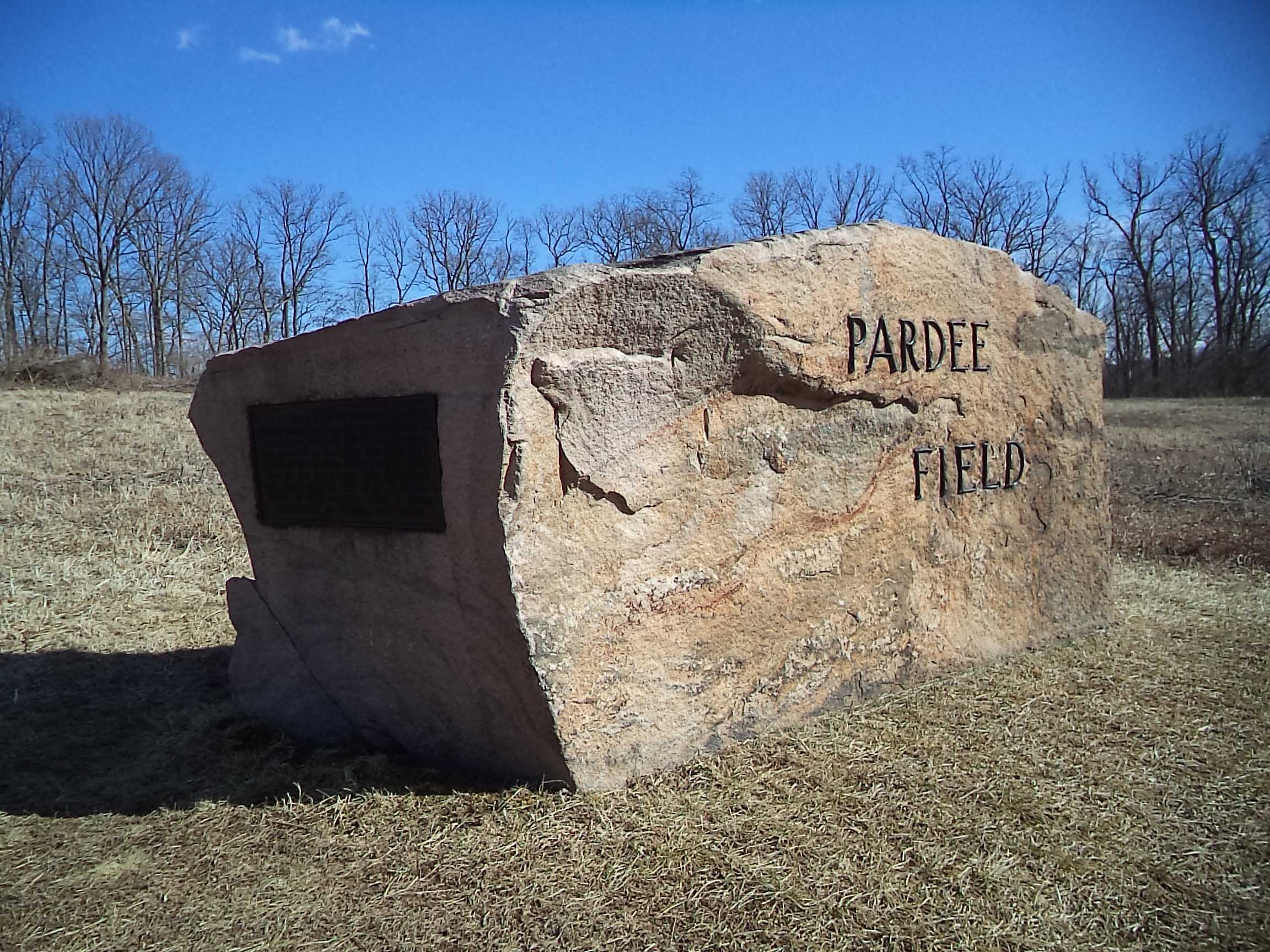 147th Pennsylvania Infantry Monument (1905), Pardee Field, Gettysburg Battlefield.